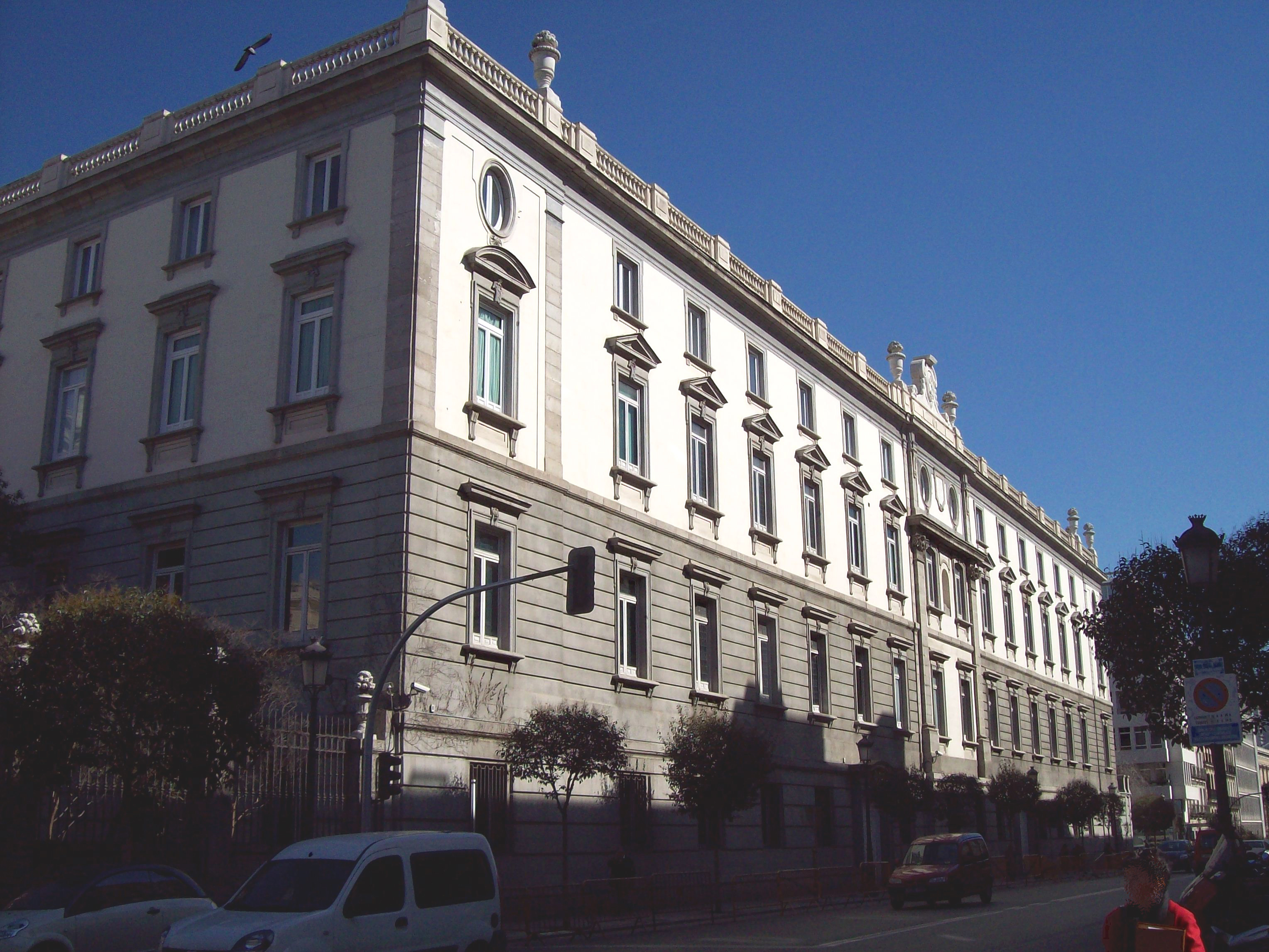 South façade (5 Calle de Bárbara de Braganza, street) of the Spanish Supreme Court's seat, in Centro district in Madrid. Until 1870, building was part, together with St. Barbara's Church, of the former Convento de la Visitación de las Salesas Reales (a convent), projected by François Carlier and Francisco Moradillo, and built from 1750 to 1758.